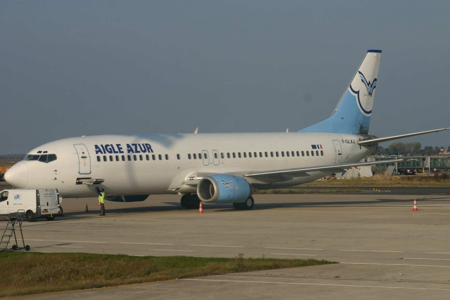 At Paris Charles De Gaulle